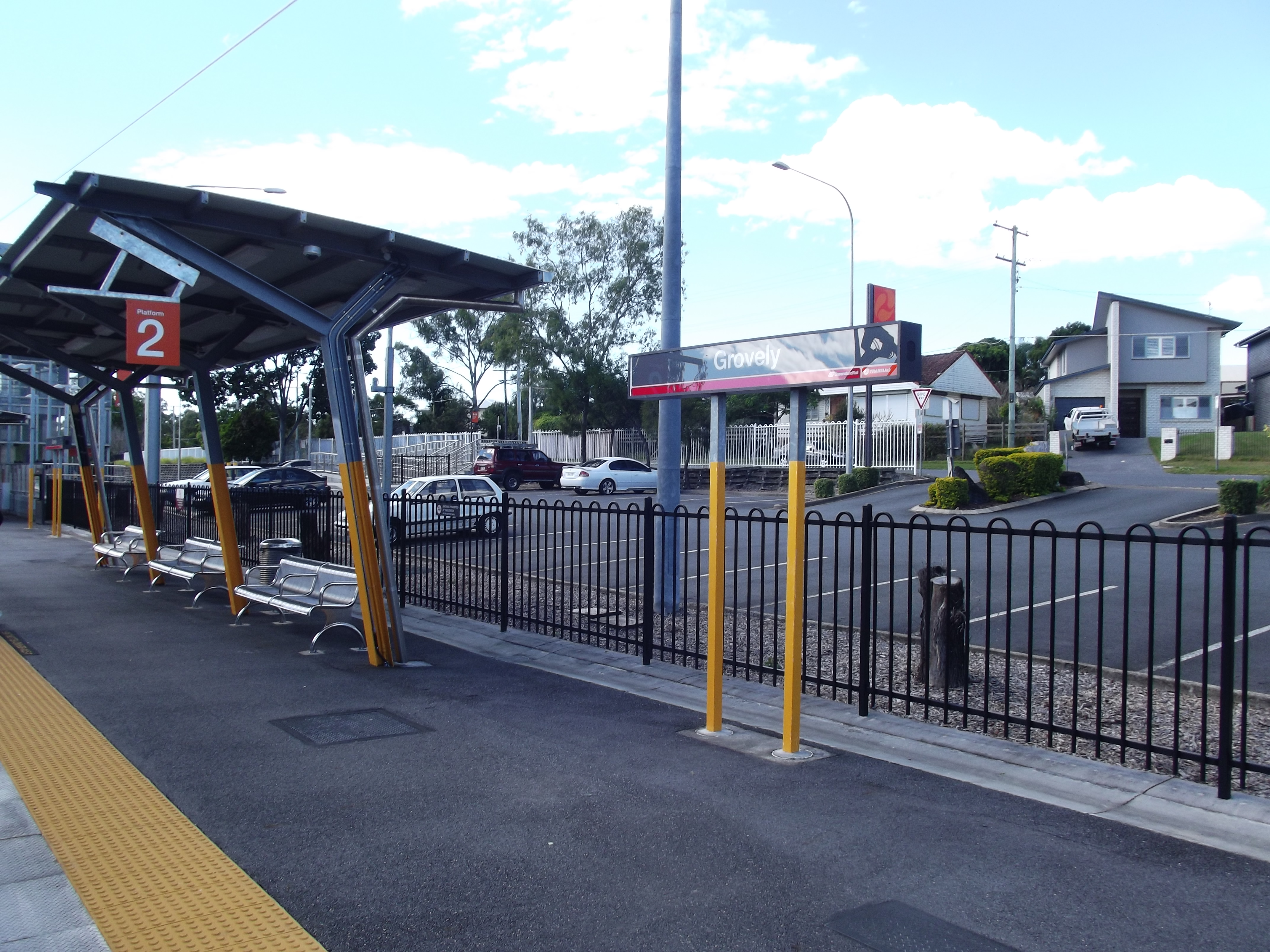 A photo of the Grovely railway station operated by TransLink, located in Brisbane, Queensland.